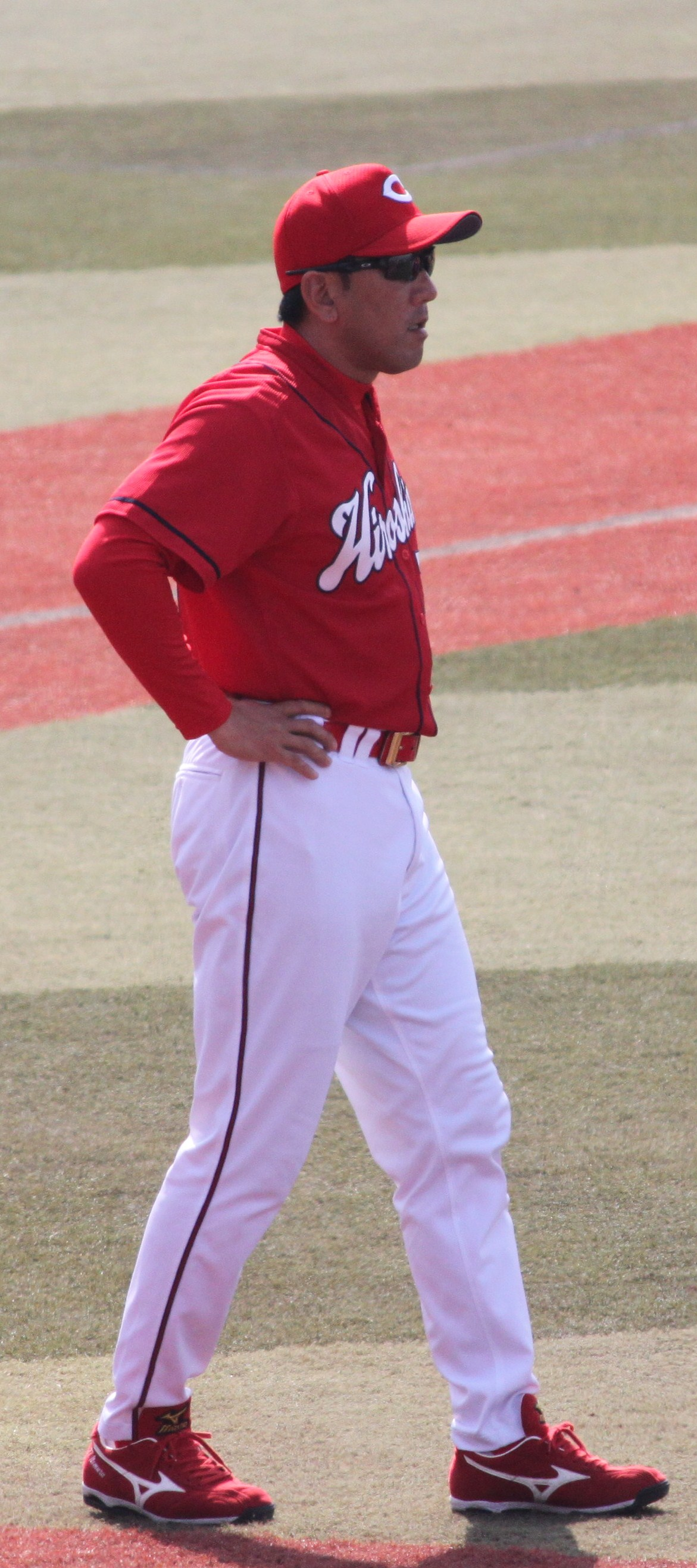 Kenjiro Nomura, manager of the Hiroshima Toyo Carp, at Yokohama Stadium.